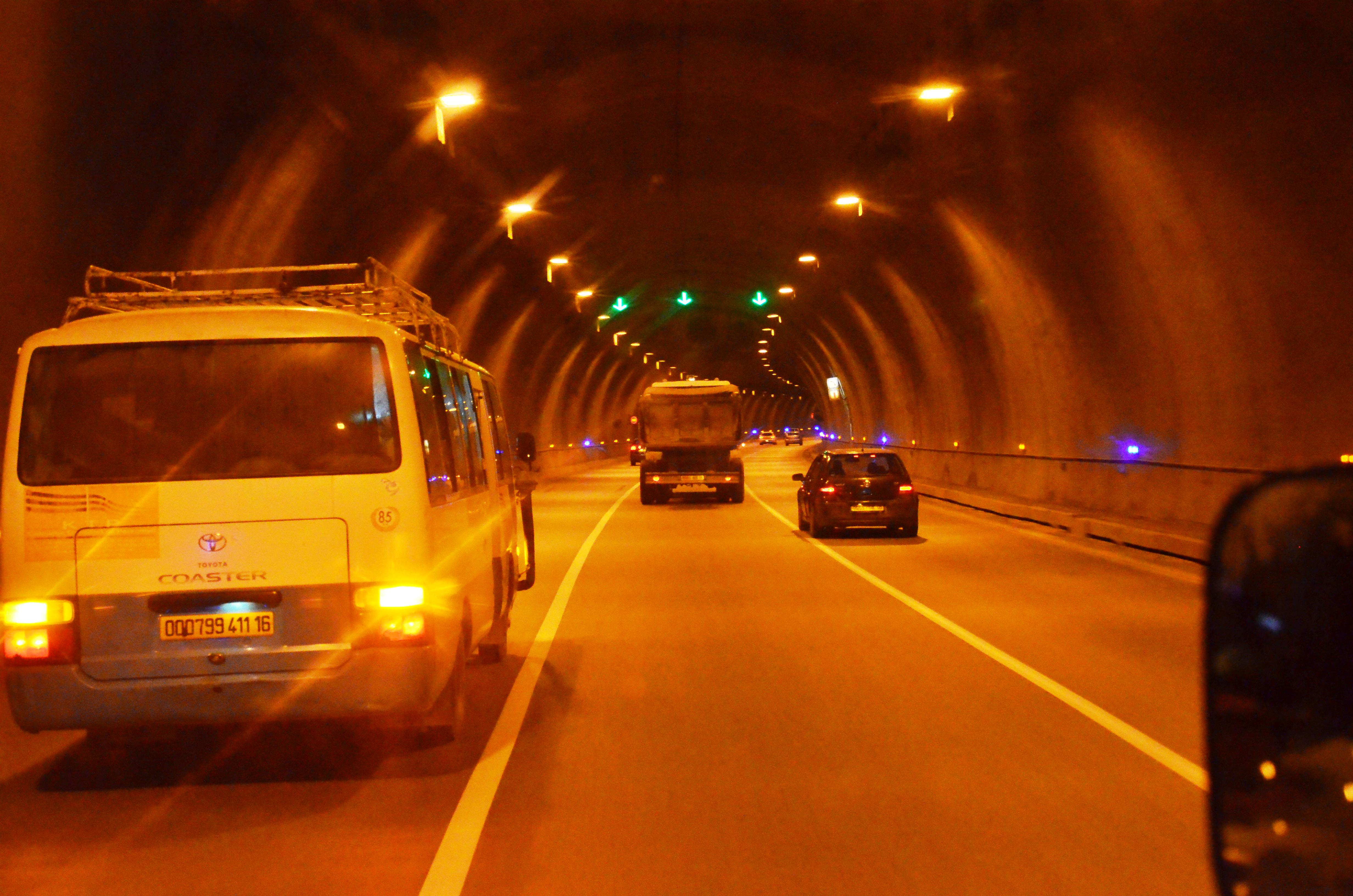 This is an image with the theme "Africa on the Move or Transport" from: Algeria